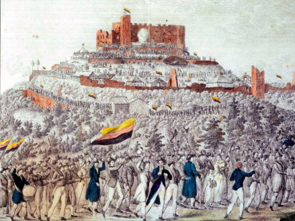 Procession of the Hambach Festival. – partially colored pen and ink drawing from 1832. The flags depict the then chosen German national colors Gold-Red-Black-, the reverse of the modern German flag.